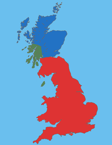 Map Gaels Brythons Picts GB